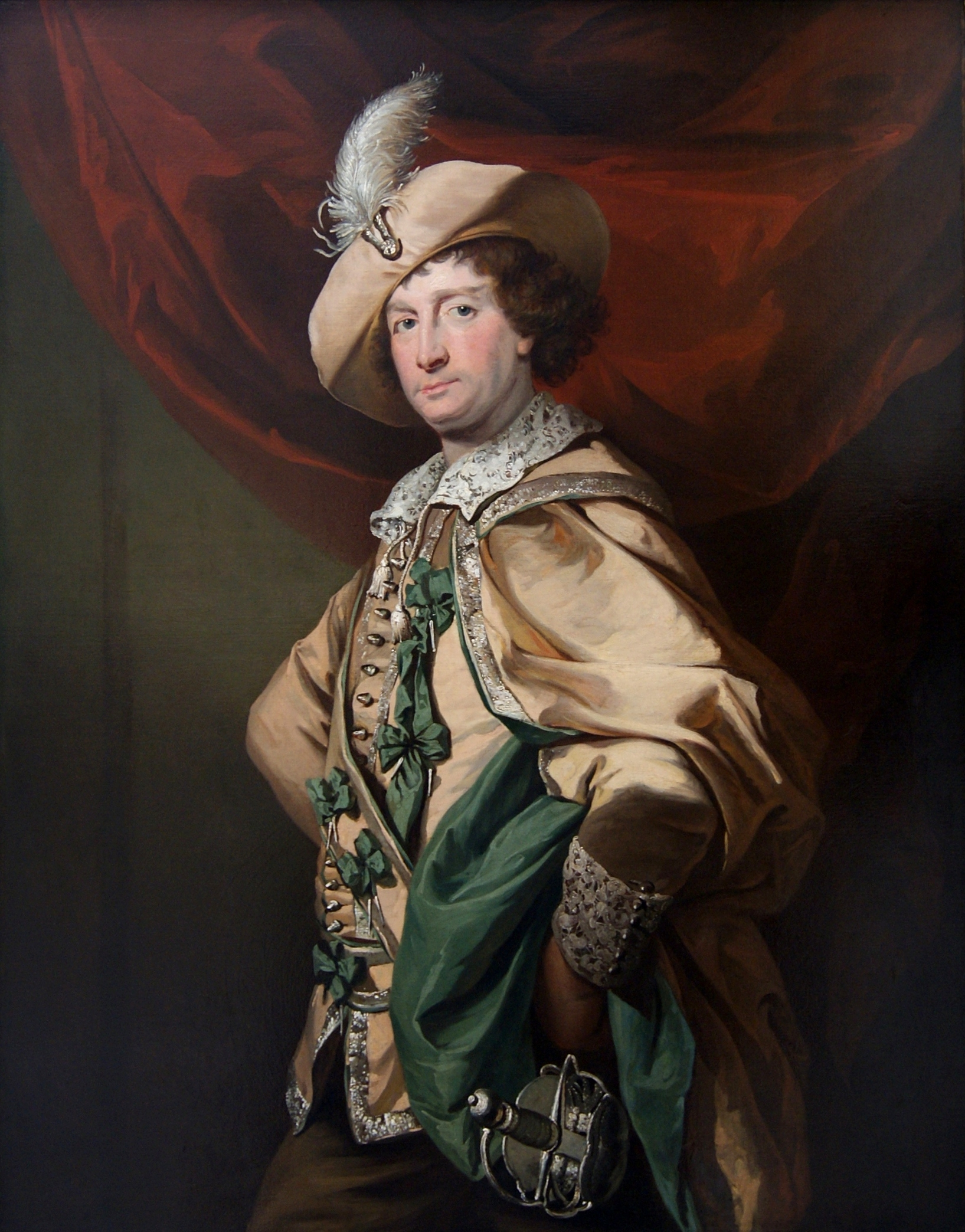 A portrait of the English actor Henry Woodward (1714–1777) portraying Petruchio in David Garrick's three-act farce Catherine and Petruchio which was based on William Shakespeare's The Taming of the Shrew.